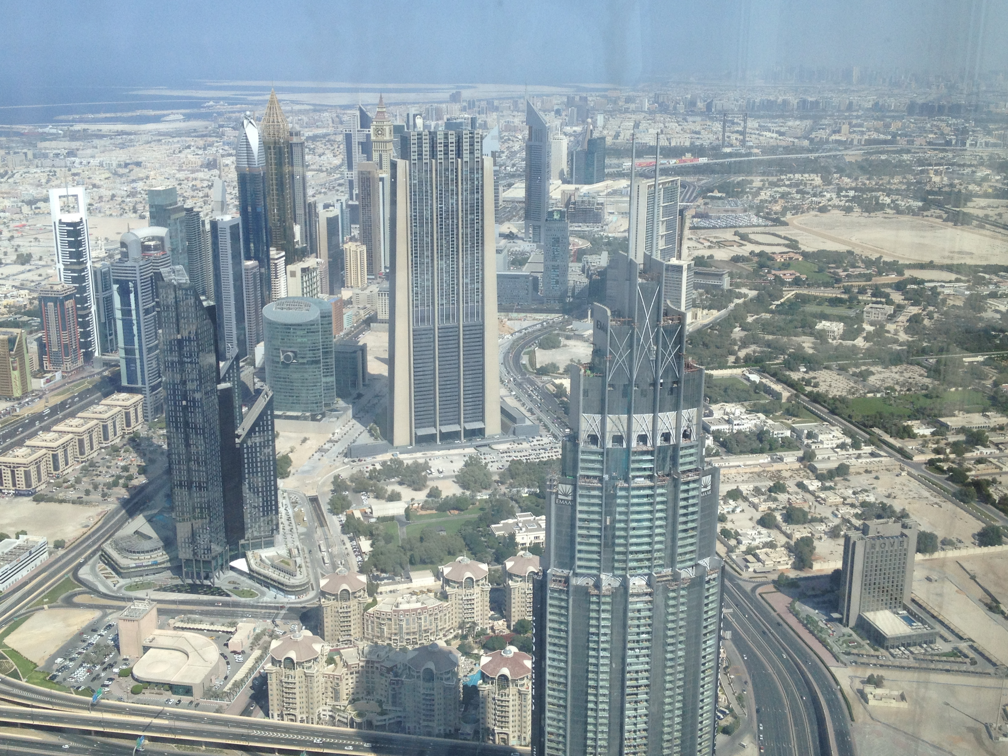 The view from the top of Burj Khalifah